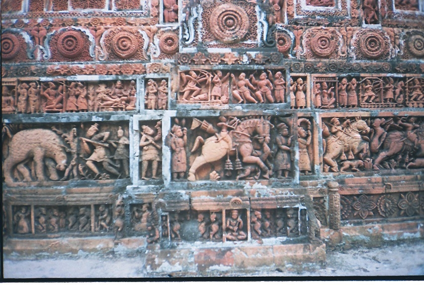 Terra Cotta on the wall of Kantanji's Temple in Dinajpur, Bangladesh. Photograph taken by: Hasan Muhammed Zahidul Amin.